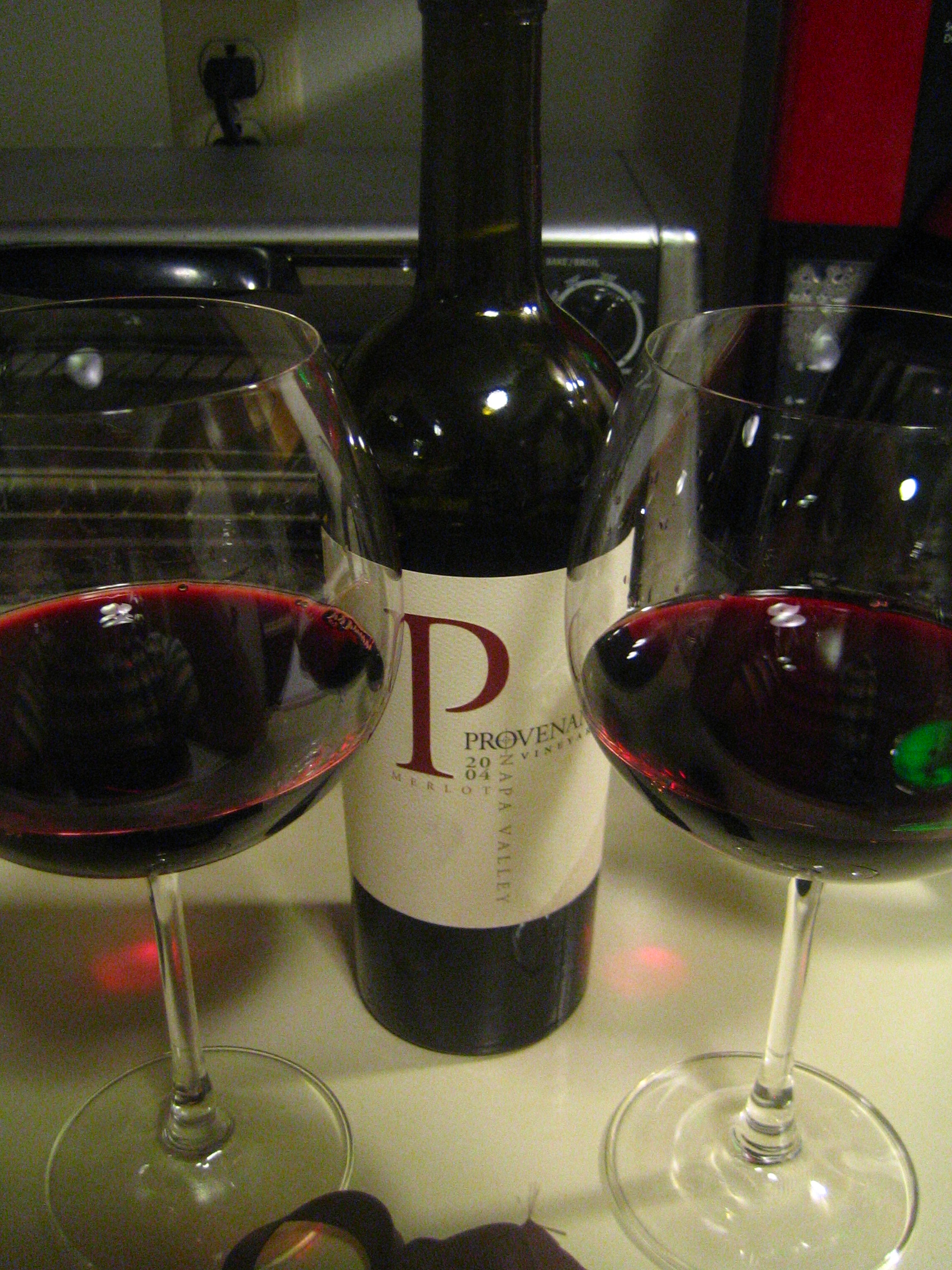 California Merlot from Provence